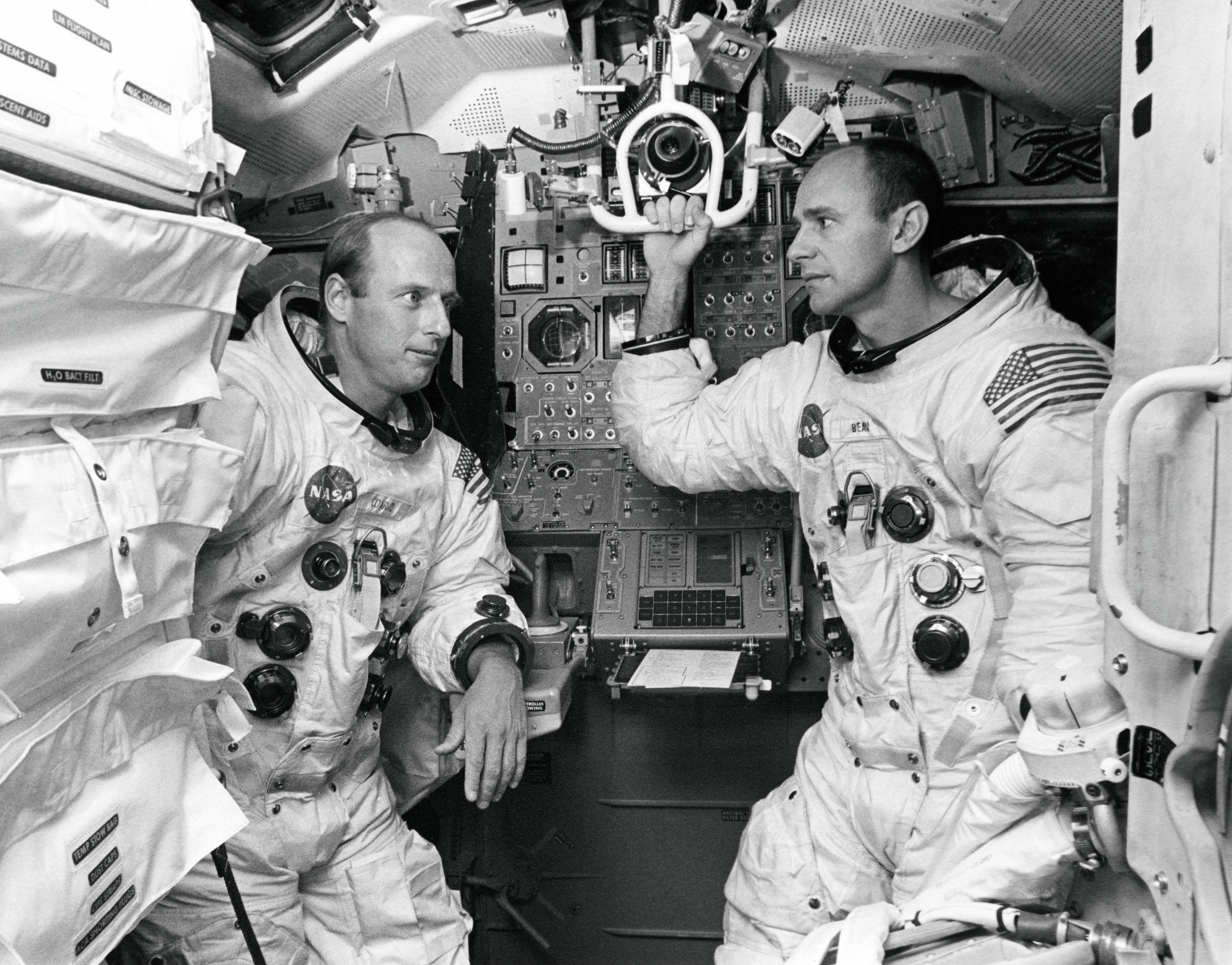 Pete Conrad (left) and Al Bean in a LM simulator. Photo filed 21 October 1969.